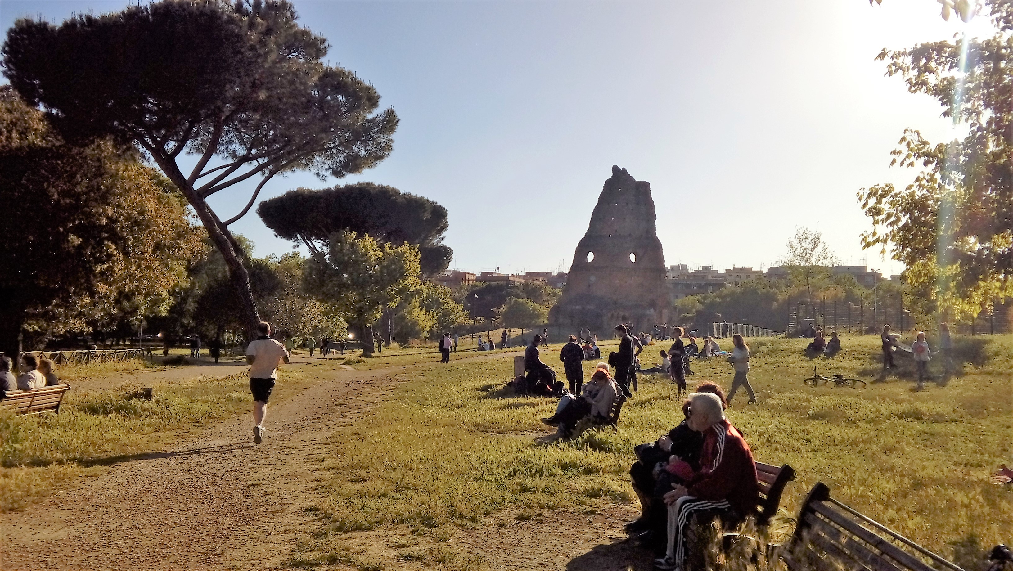 This is a photo of a monument which is part of cultural heritage of Italy.